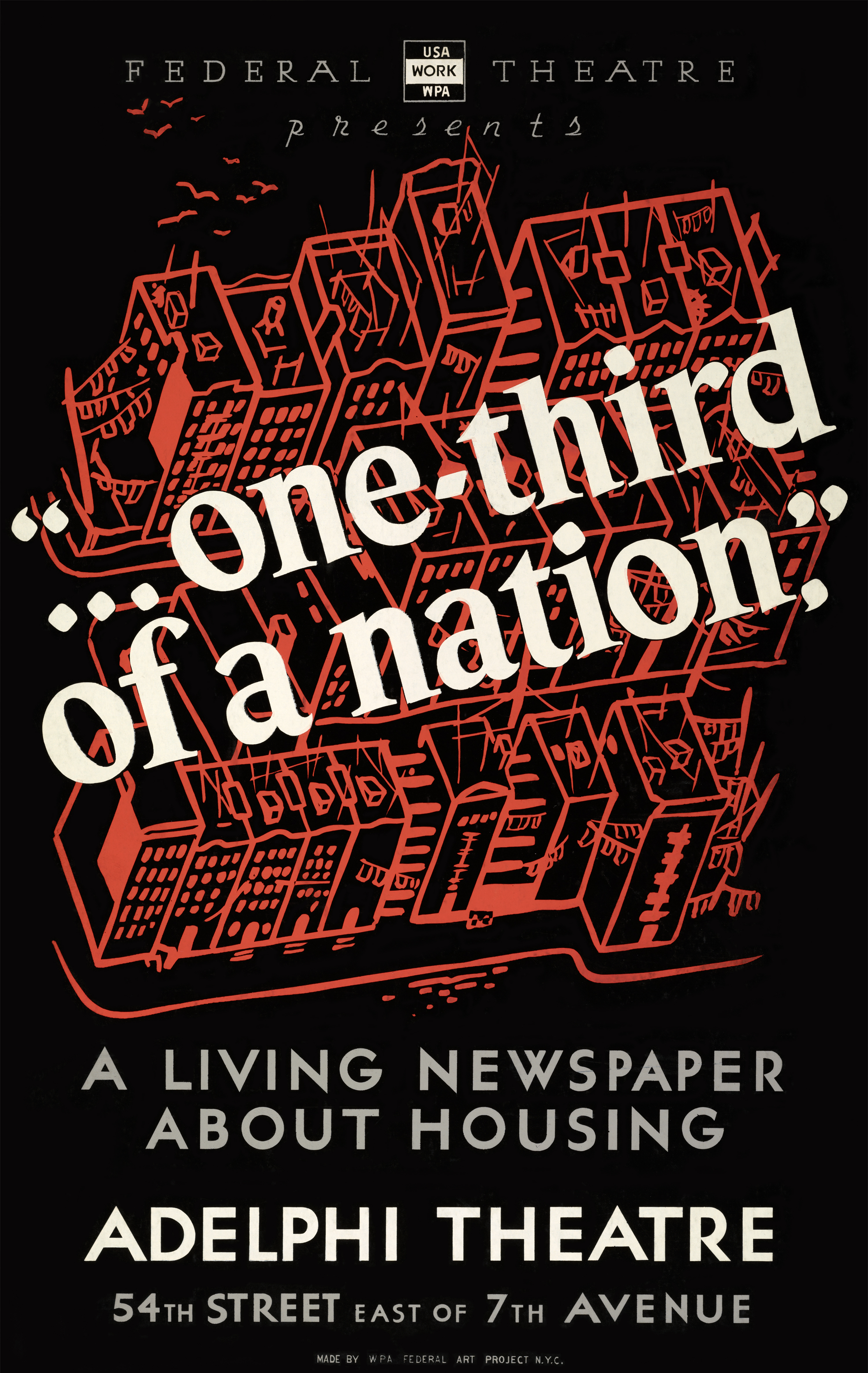 Silkscreen poster for the New York production of One-Third of a Nation, a Living Newspaper play by the Federal Theatre Project